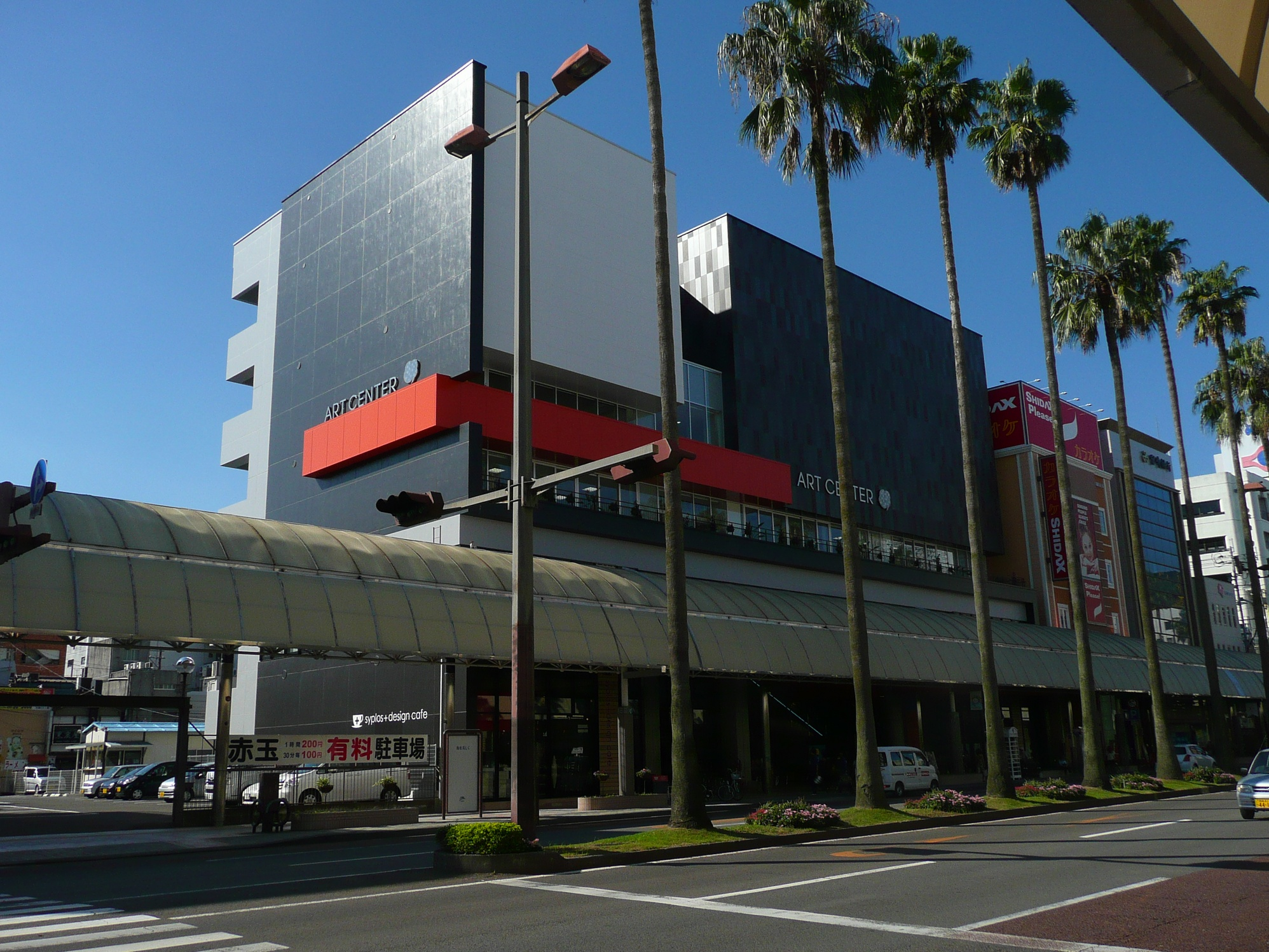 Miyazaki Art Center (Central Miyazaki City, Japan)